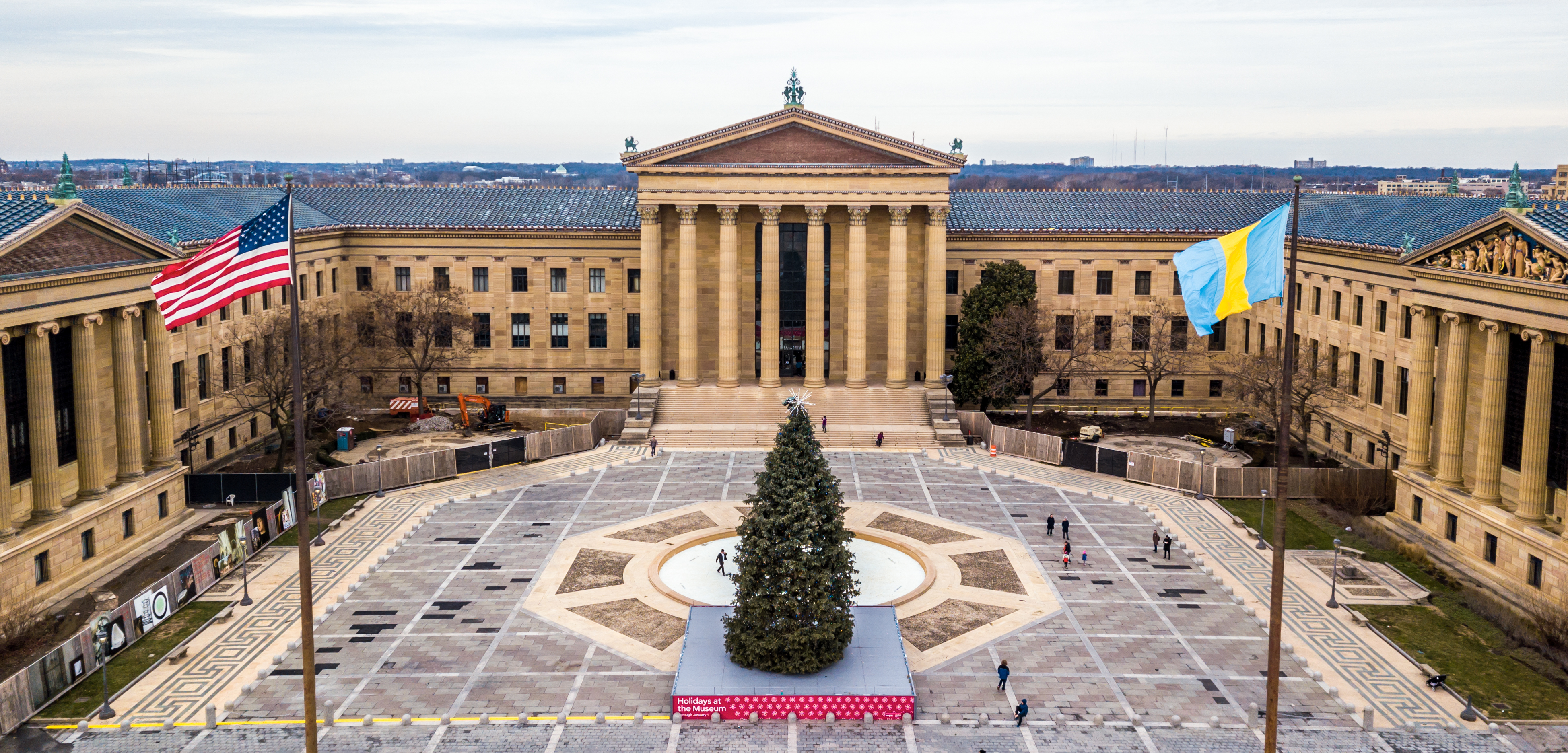 Philadelphia Museum of Art, main entrance, during Christmas holiday.